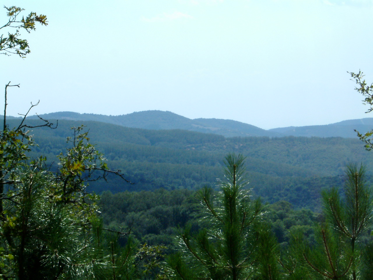 View on a valley within Cholomontas mountain range, central Chalkidiki, Greece